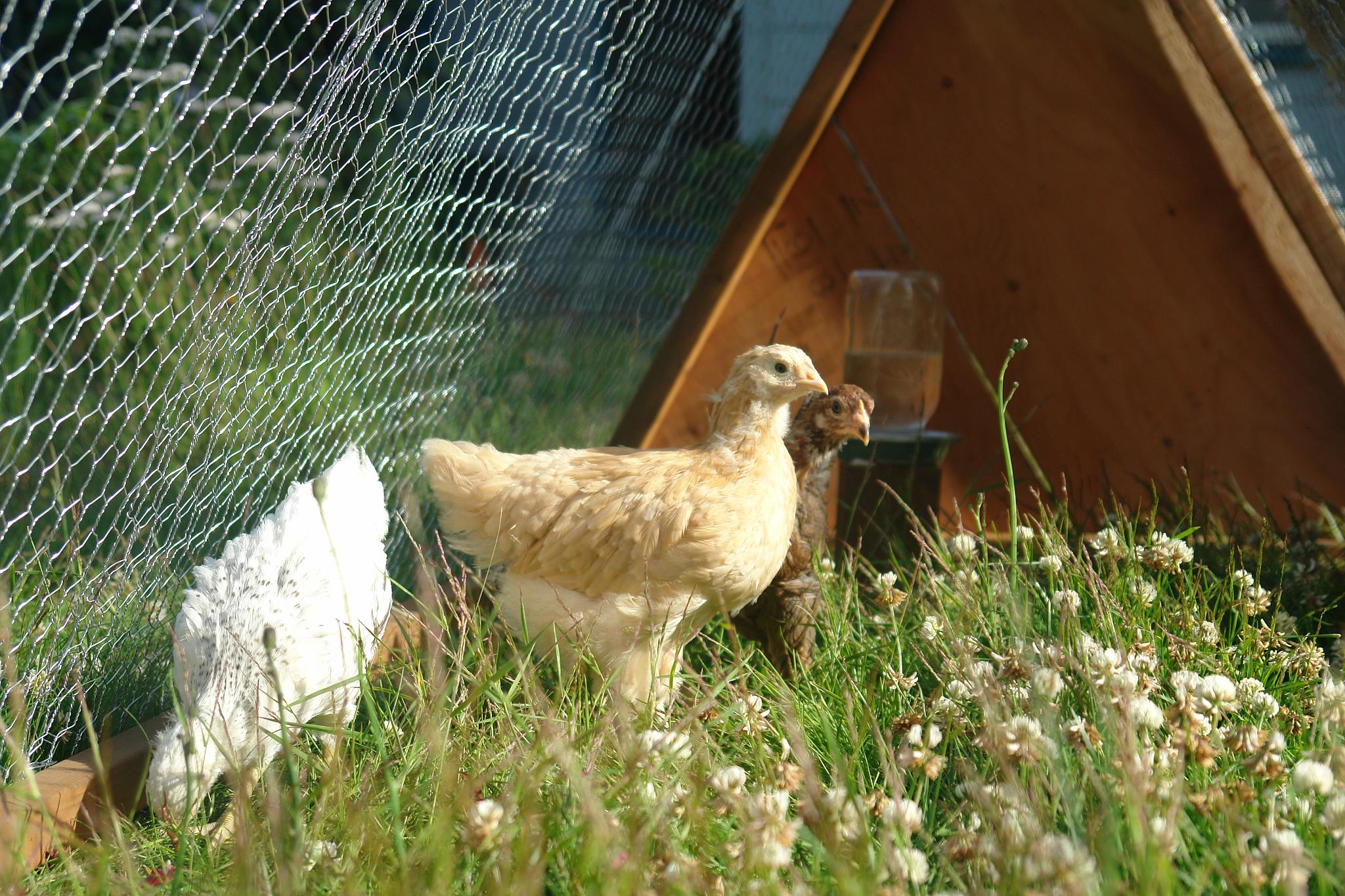 A Delaware, Welsummer and an Buff Orpington, about 5 weeks old in a chicken tractor.